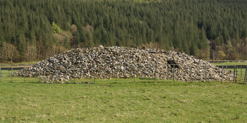 Nether Largie North Cairn, Kilmartin Glen, Scotland - from the north west